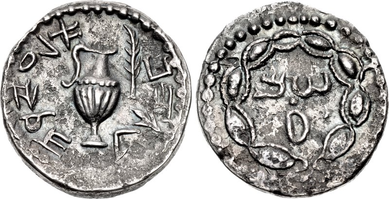 JUDAEA, Bar Kochba Revolt. 132-135 CE. AR Zuz – Denarius (17.5mm, 3.09 g, 1h). Undated, struck early year 2 (133 CE). “Shim‘” (in Hebrew) within wreath / Flagon with handle; palm frond to right; “Eleazar the Priest” (in Hebrew) around. Mildenberg 3 (O3/R1); Meshorer 234a; Hendin 1384; Bromberg 441 (same dies); Shoshana I 20249 (same obv. die); Sofaer 36 (same obv. die); Spaer 199 (same obv. die).